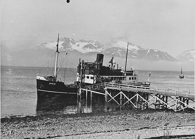 RAFA-3309 U71_0225 Vil du bla i albumet, kan du gjøre det i Digitalarkivet: If you want to flick through the album, you can do it here